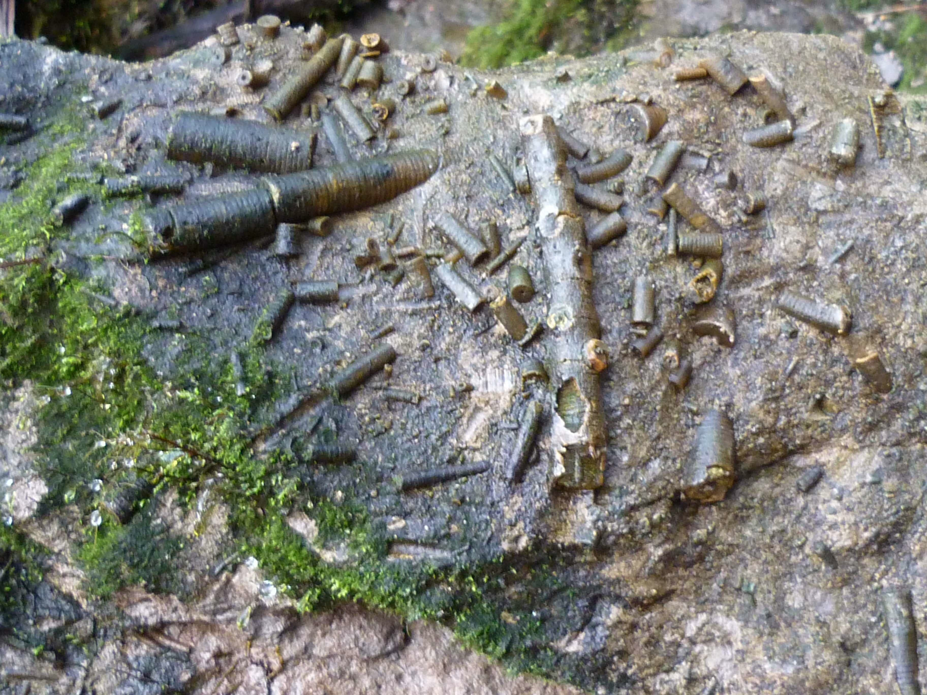 Fossil Crinoids in Limestone rock in The Screenagh River